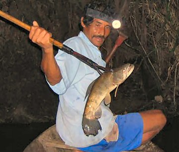 Night spear fishing , Amazon basin ,Peru. taken by:Yuval gelber